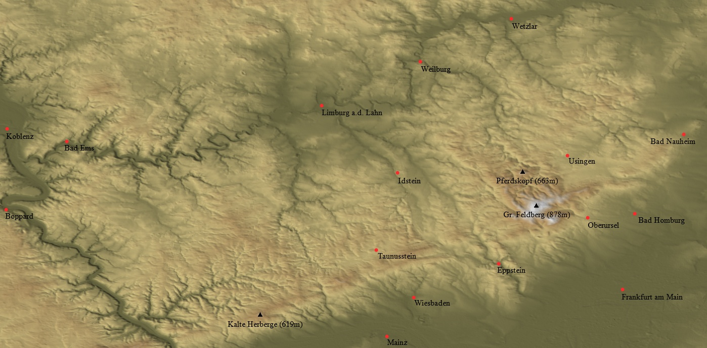 Map of the Taunus with the most important cities and mountains